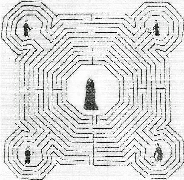 Plan of the labyrinth of Reims Cathedral in France, with figures of the architects